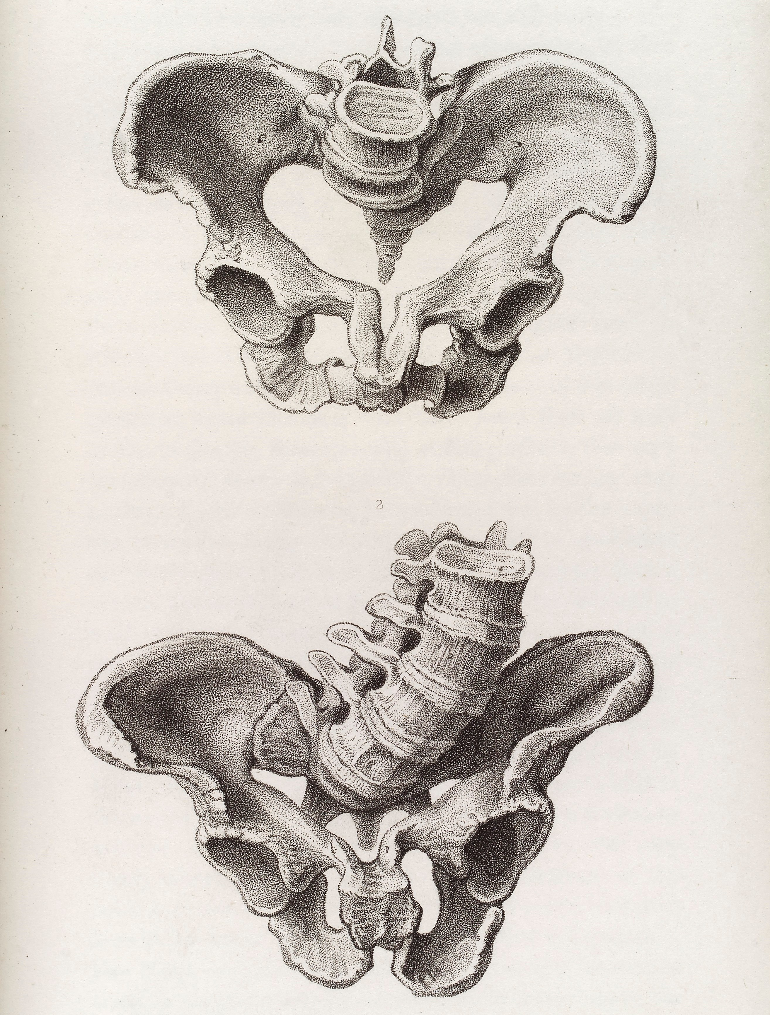 Illustration of a deformed female pelvis - angular distortion whch would lead to obstructive labour Rare Books Keywords: Pelvic; Anatomy; Obstetrics; Pelvis; Childbirth; Parturition